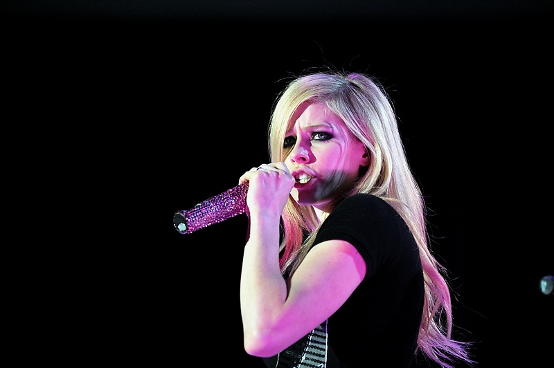 Avril Lavigne performing at the Heineken Music Hall, in Amsterdam, Netherlands.